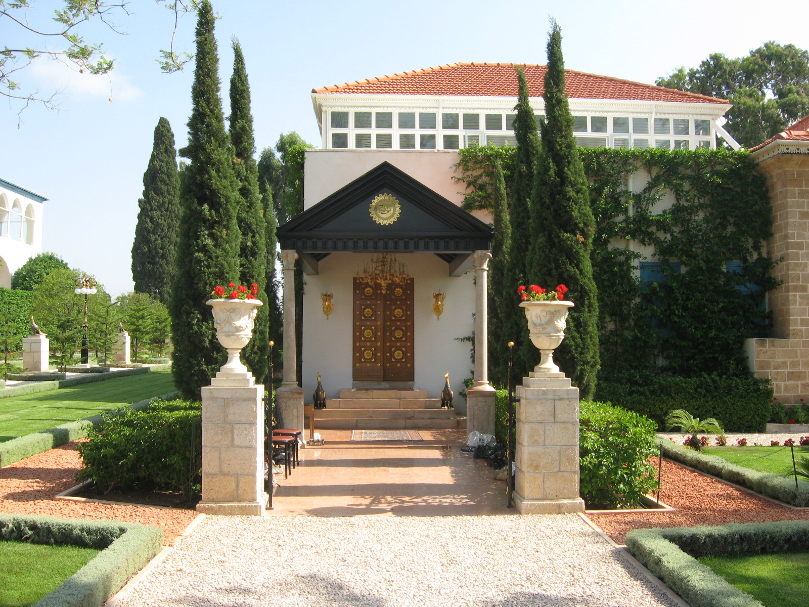 The Shrine of Bahá'u'lláh in 'Akká, Israel.